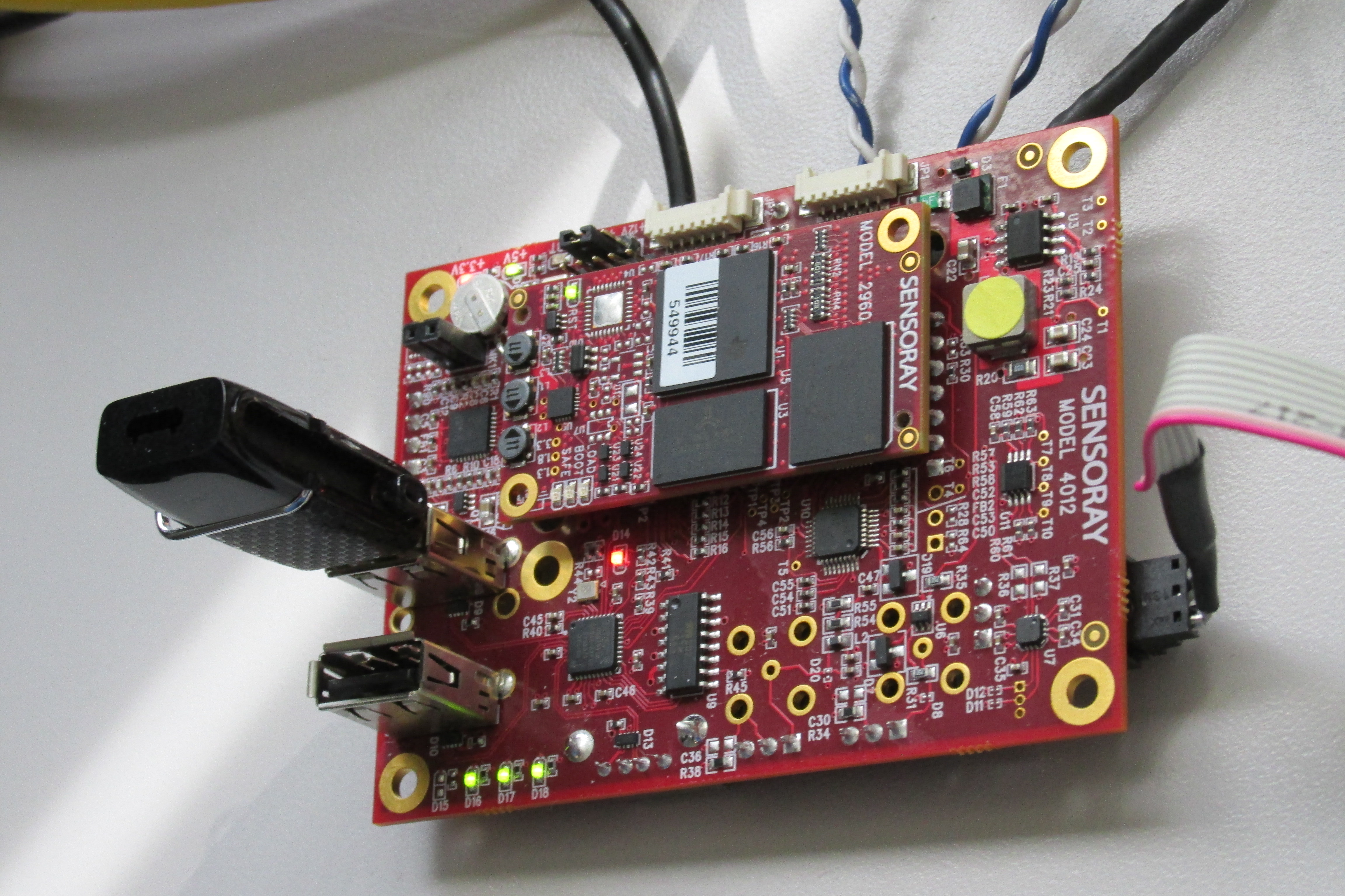 Embeddable DVR with incremental encoder interface (Sensoray 4012). One NTSC/PAL input (on bottom of board) captures video while the microphone (upper-left) captures audio. Time/date and incremental encoder position are overlaid onto the video, which is then compressed to H.264. A/V is multiplexed to MP4 format and recorded to removable USB storage.